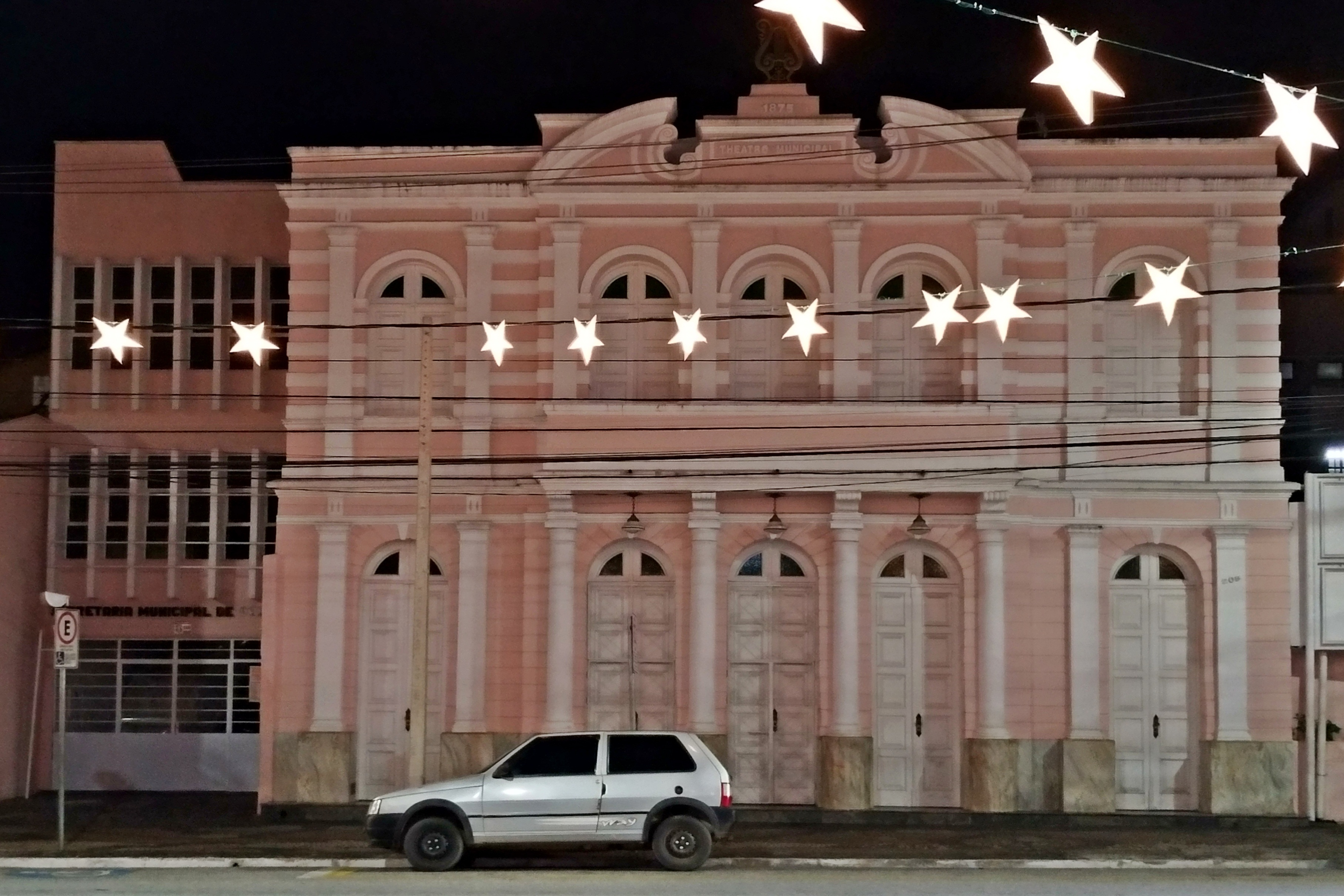 Nocturn view of the facade of the Teatro Municipal (municipal theater) of Pouso Alegre, Minas Gerais, Brazil.